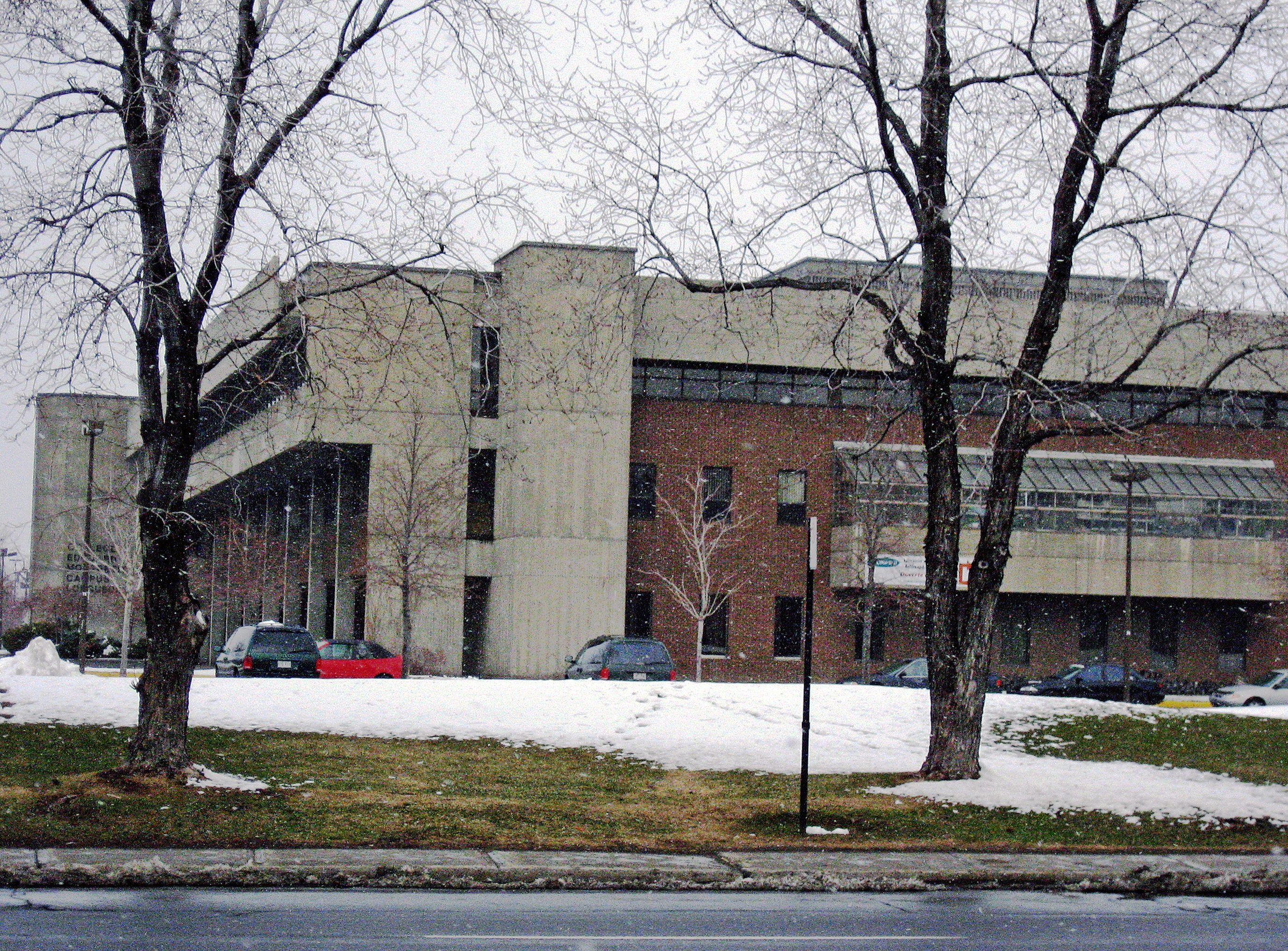 Collège Édouard-Montpetit in Longueuil, Quebec, Canada